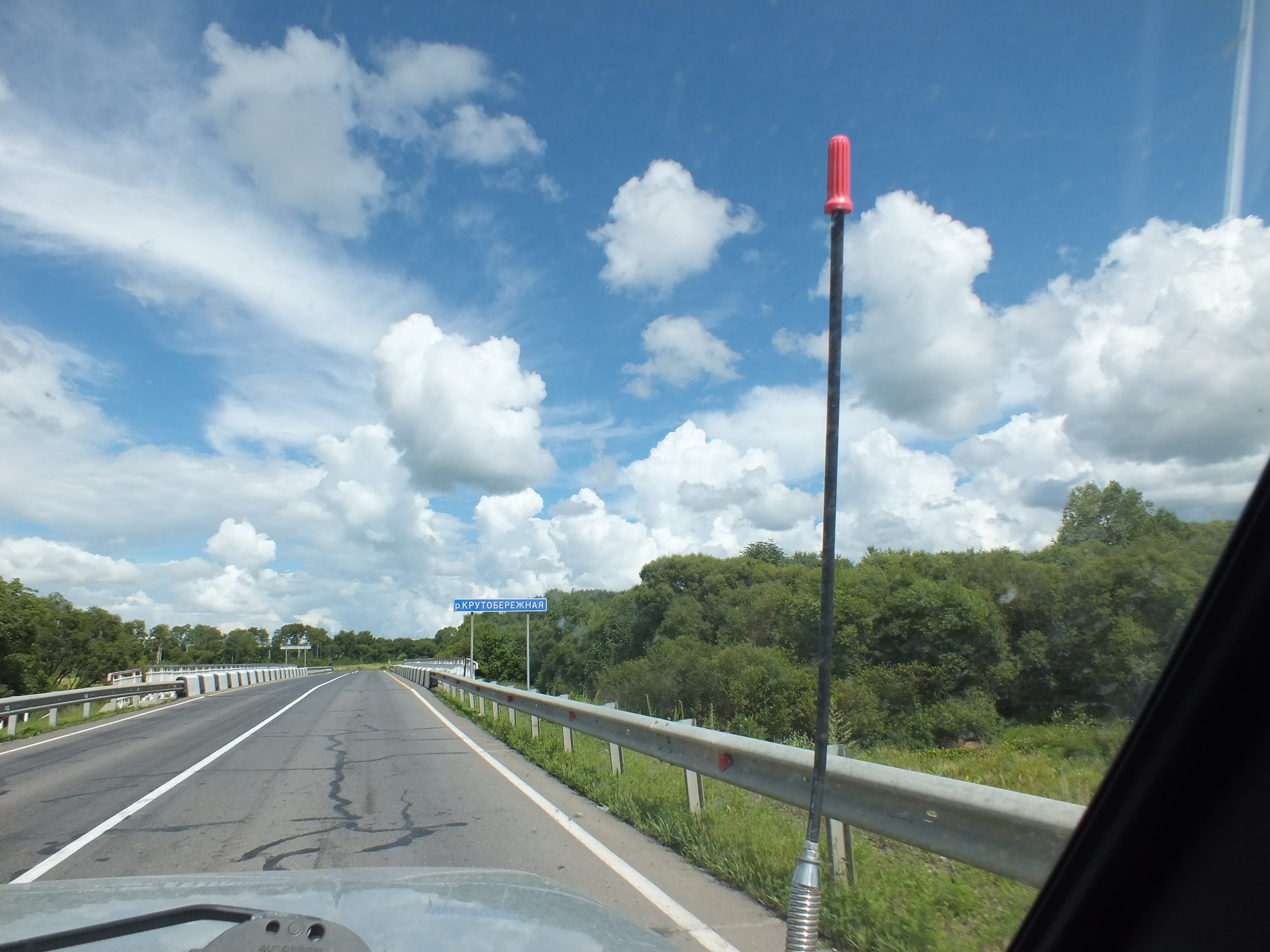 Znamenka Primorskiy kray